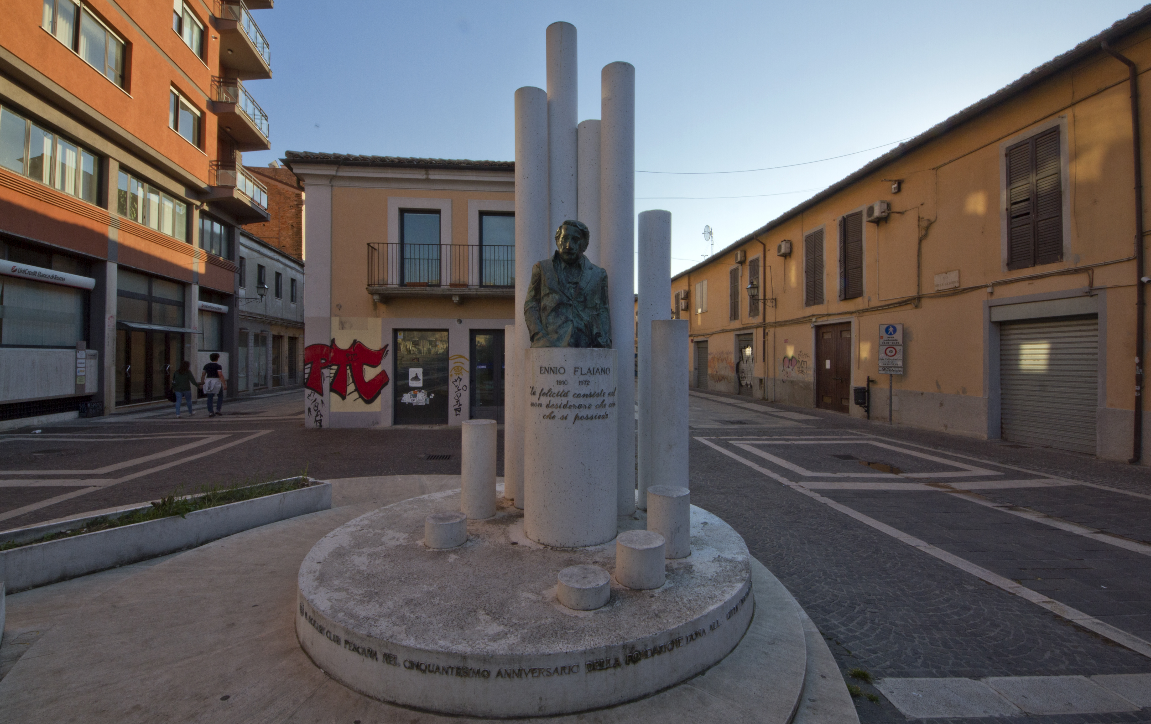 Pescara, Province of Pescara, Italy